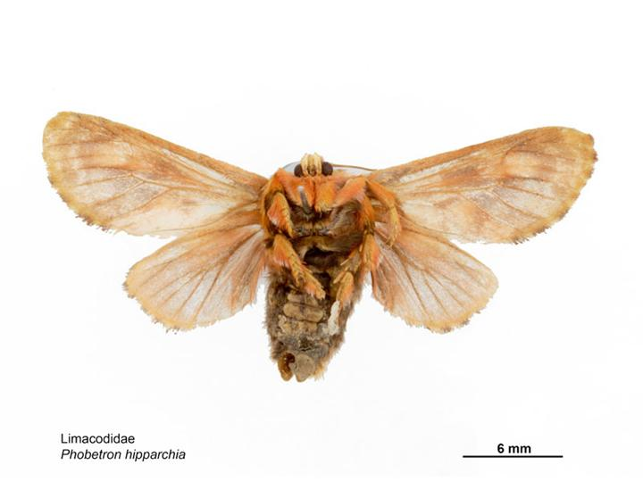 Phobetron hipparchia, ventral view